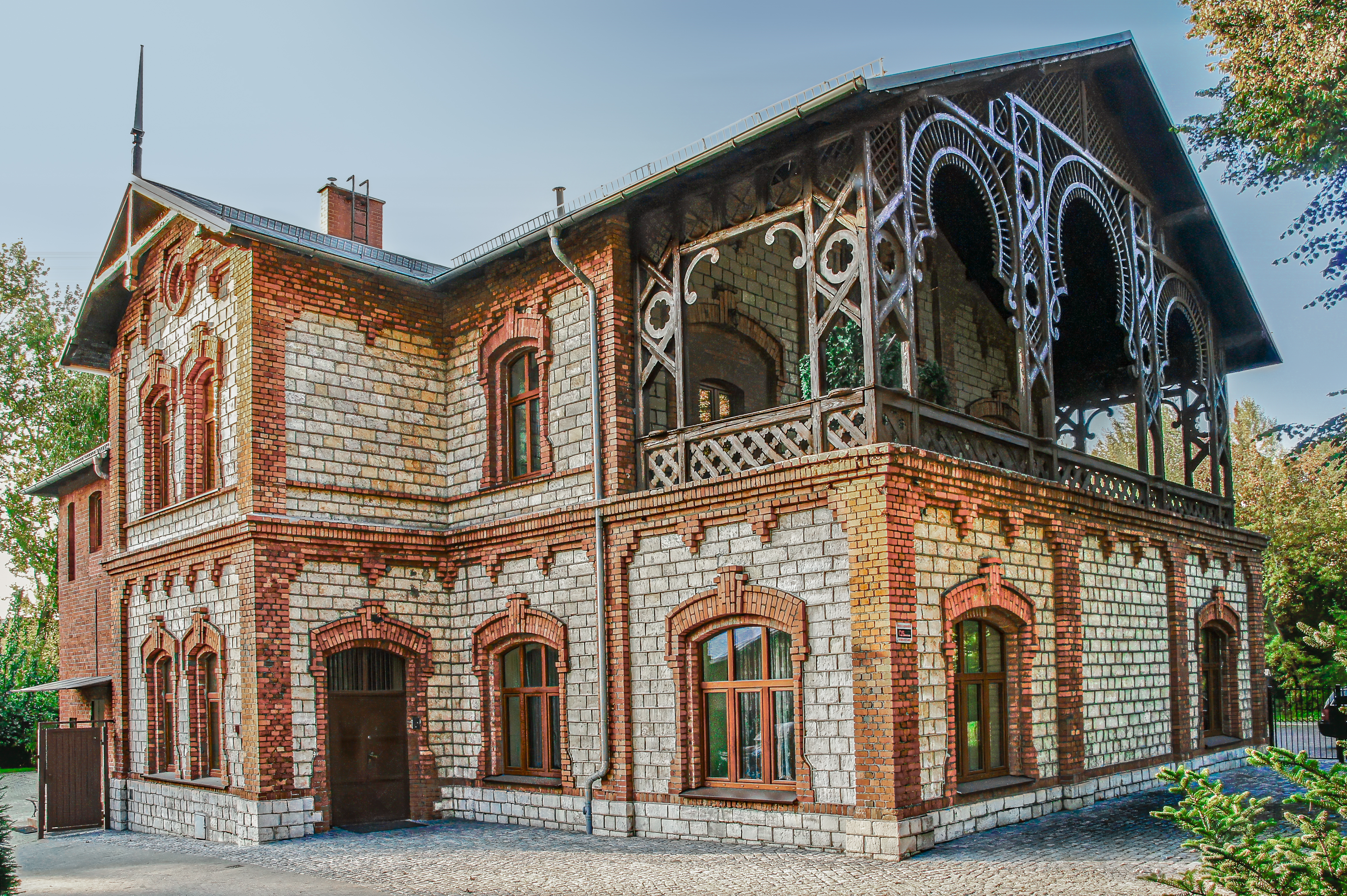 The building of the given inn Browar Sielec